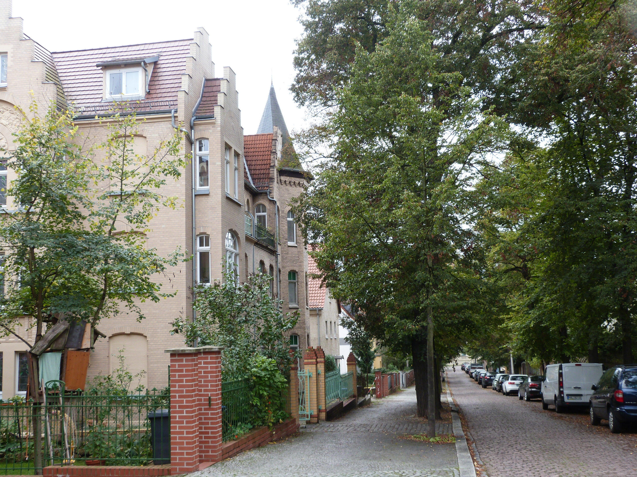 Senefelderstrasse in Halle (Saale), Saxony-Anhalt